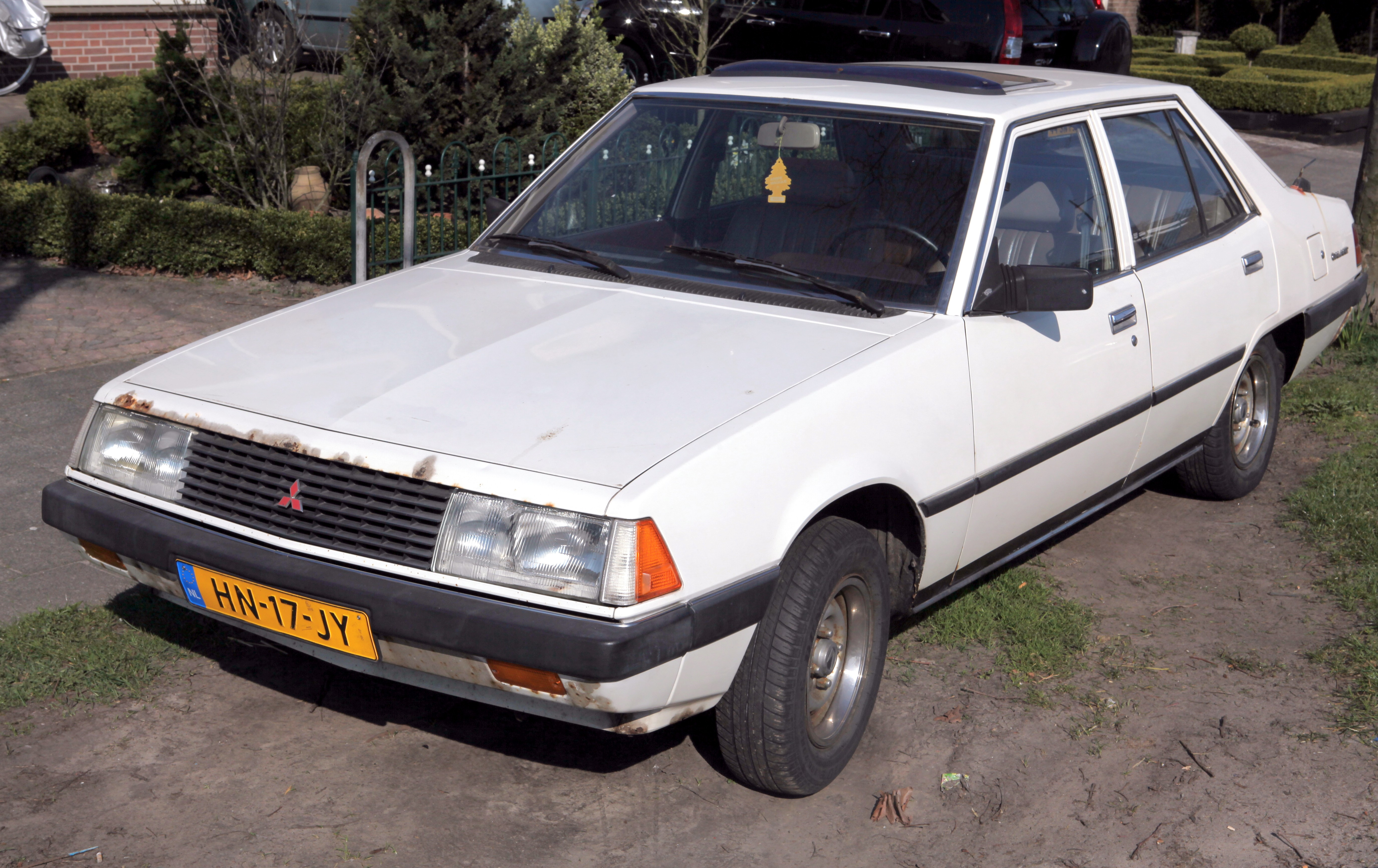 1982 Mitsubishi Galant 1600 EL, first registered 26 February 1982. Last taxed 20 September 2014. The fourth generation Galant was produced from 1980 to 1987.